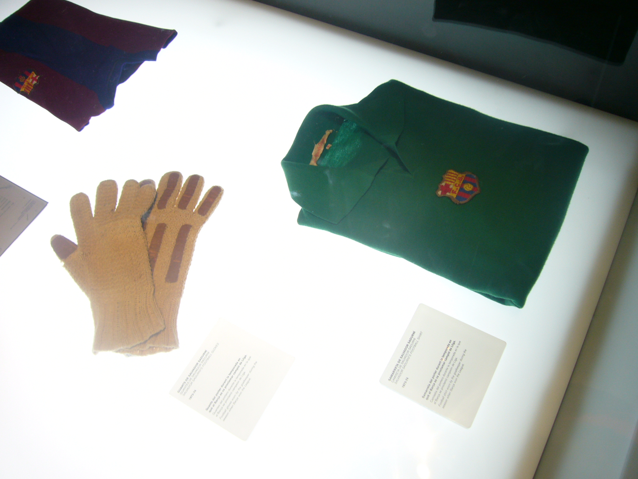 Gloves and shirt of Salvador Sadurní, the renowned FC Barcelona goalkeeper. Season 1973-74. Now at the FC Barcelona museum